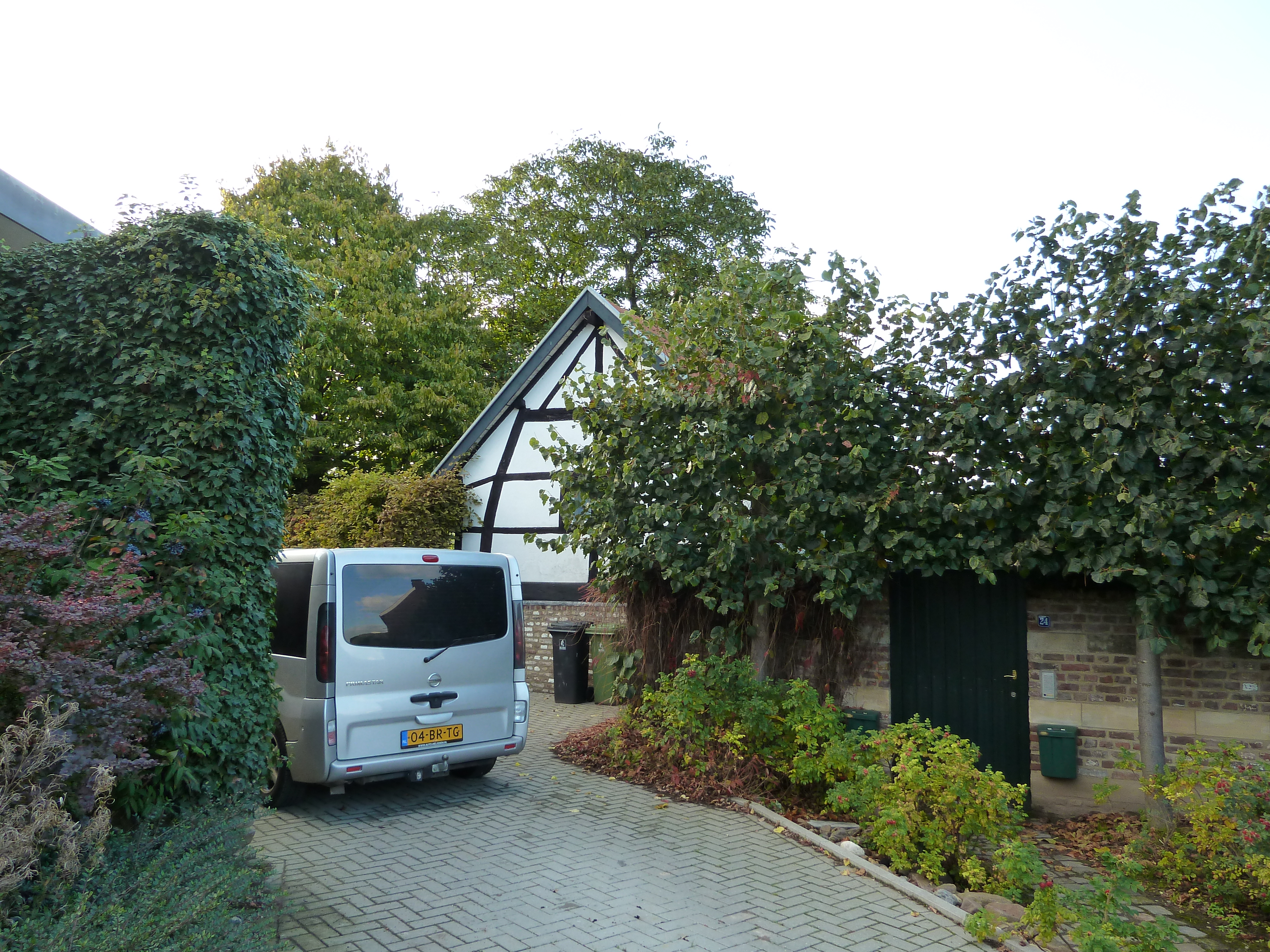 Moerslag 24, Sint Geertruid, Limburg, the Netherlands